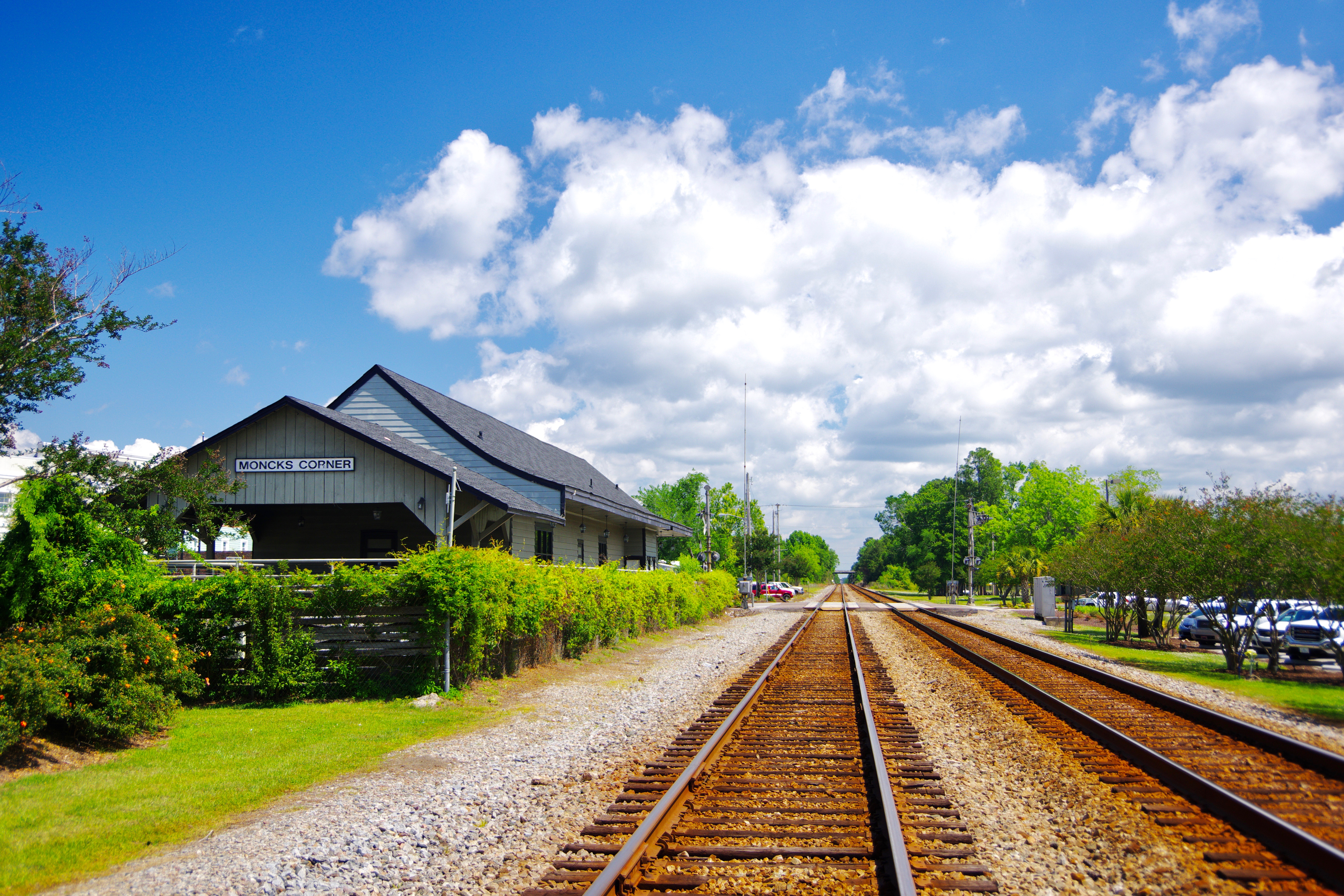 Train station at Moncks Corner, South Carolina, United States.